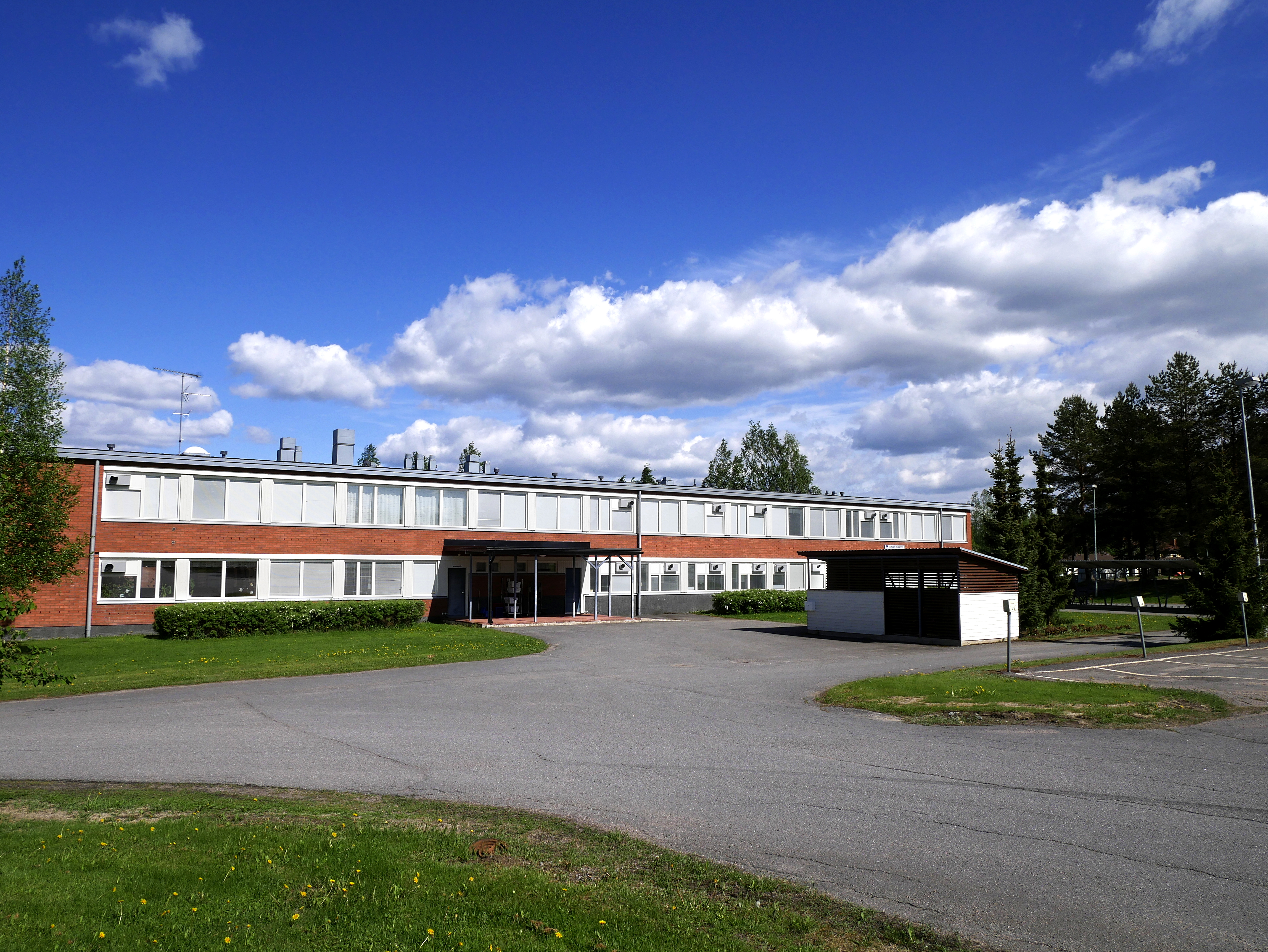 School in Töysä, Finland.